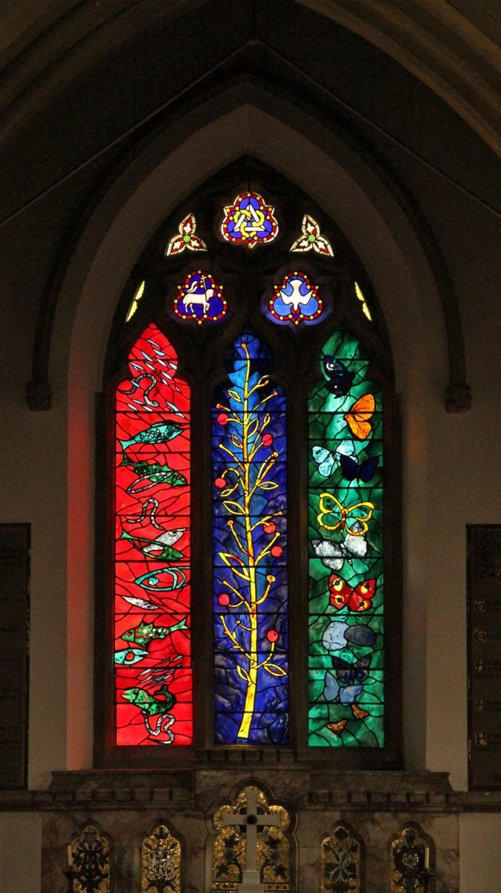 East window of the chancel of St Bartholomew's parish church, Nettlebed, Oxfordshire. The stained glass in the three main lights was designed and made in 1970 by John Piper and Patrick Reyntiens. The glass in the trefoils above is older.